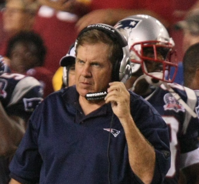 Head coach Bill Belichick of the New England Patriots watches the preseason game against the Washington Redskins at FedExField on August 28, 2009 in Landover, Maryland.